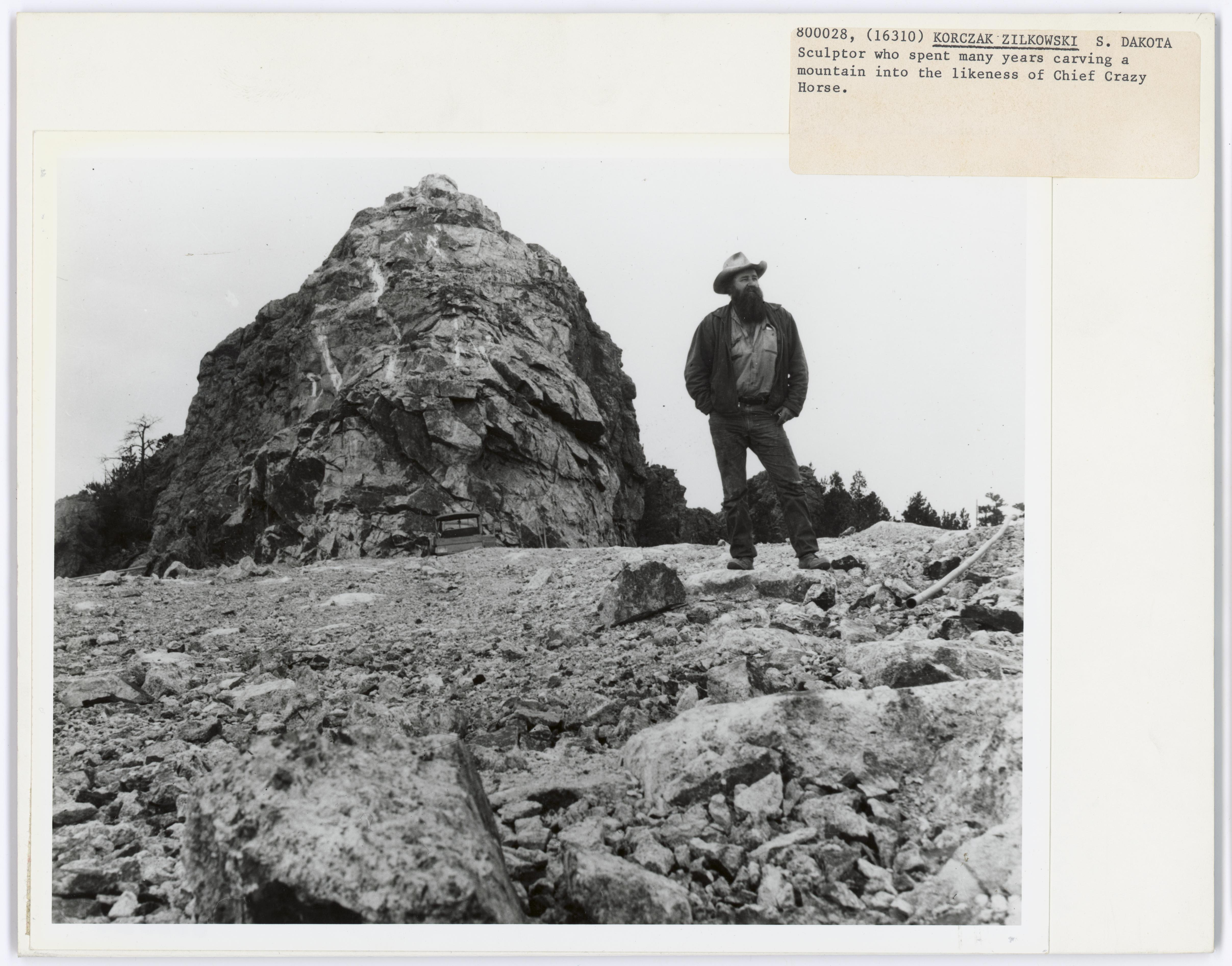 RG# 95-GP Records of the Forest Service General Subject Files Negative Number: 800028 001964_800028_16310_2007_001